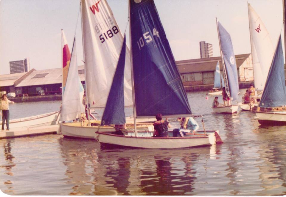 Greenland Dock Water Sports Centre early 80s